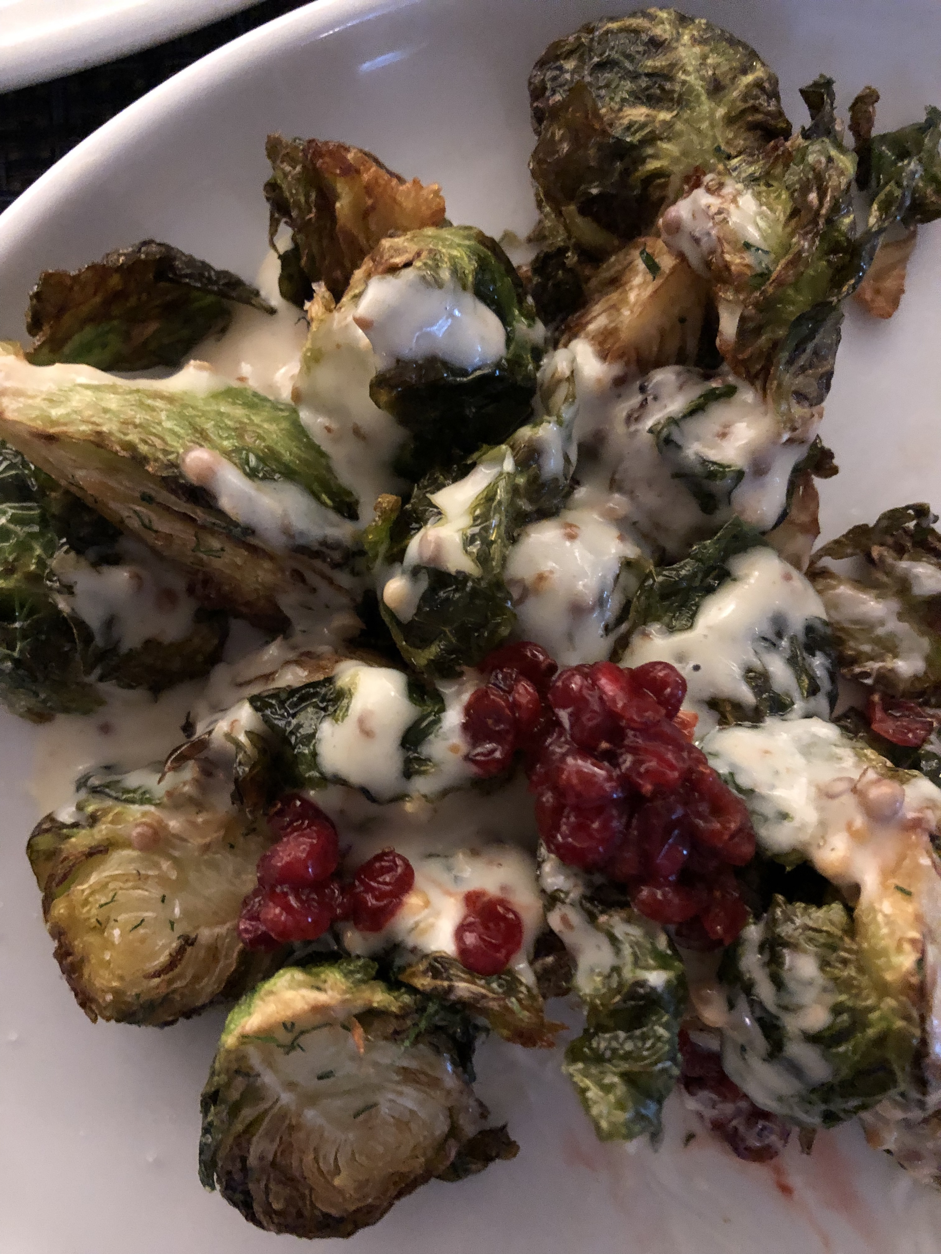 Crispy Brussels sprouts (brussels sprouts, coriander seed, barberries, garlic yogurt) at Zaytinya in Washington, DC.